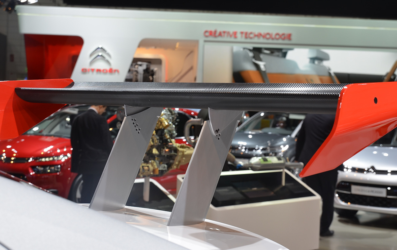 IAA Frankfurt 2013: Citroen C-Elysee WTCC / Photo: Raphael Jahn ______________________ Please feel free to use this image for FREE under the Creative Commons (CC) licence. However, if you use the image, pls set a backlink to and give credit as following: "Image: ". For highres images or any other inquiries pls contact mailto: . Thanks.